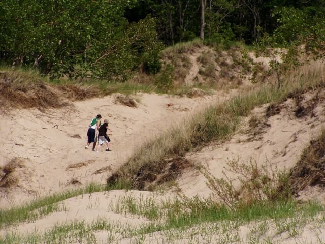 The dune climb near the bathhouse, Indiana Dunes State Park